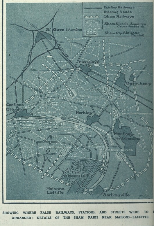 Detailed map of the fake Paris 1917 english version